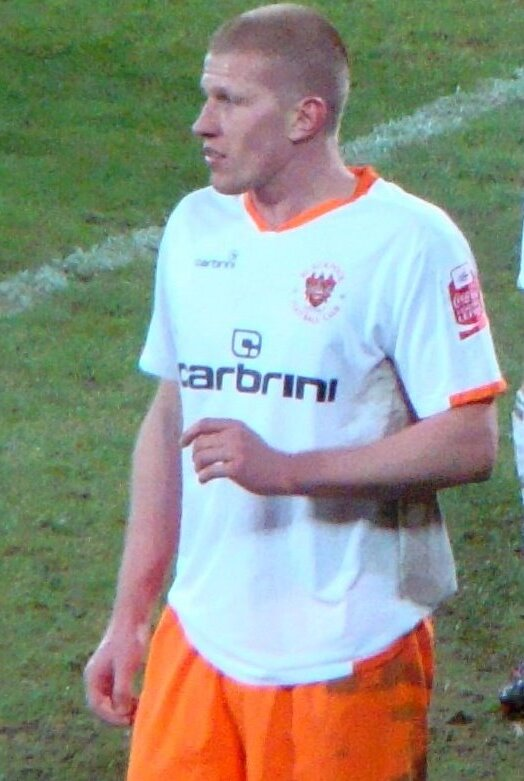 09/01/10 Cardiff V Blackpool, Cardiff City Stadium, Cardiff, Wales